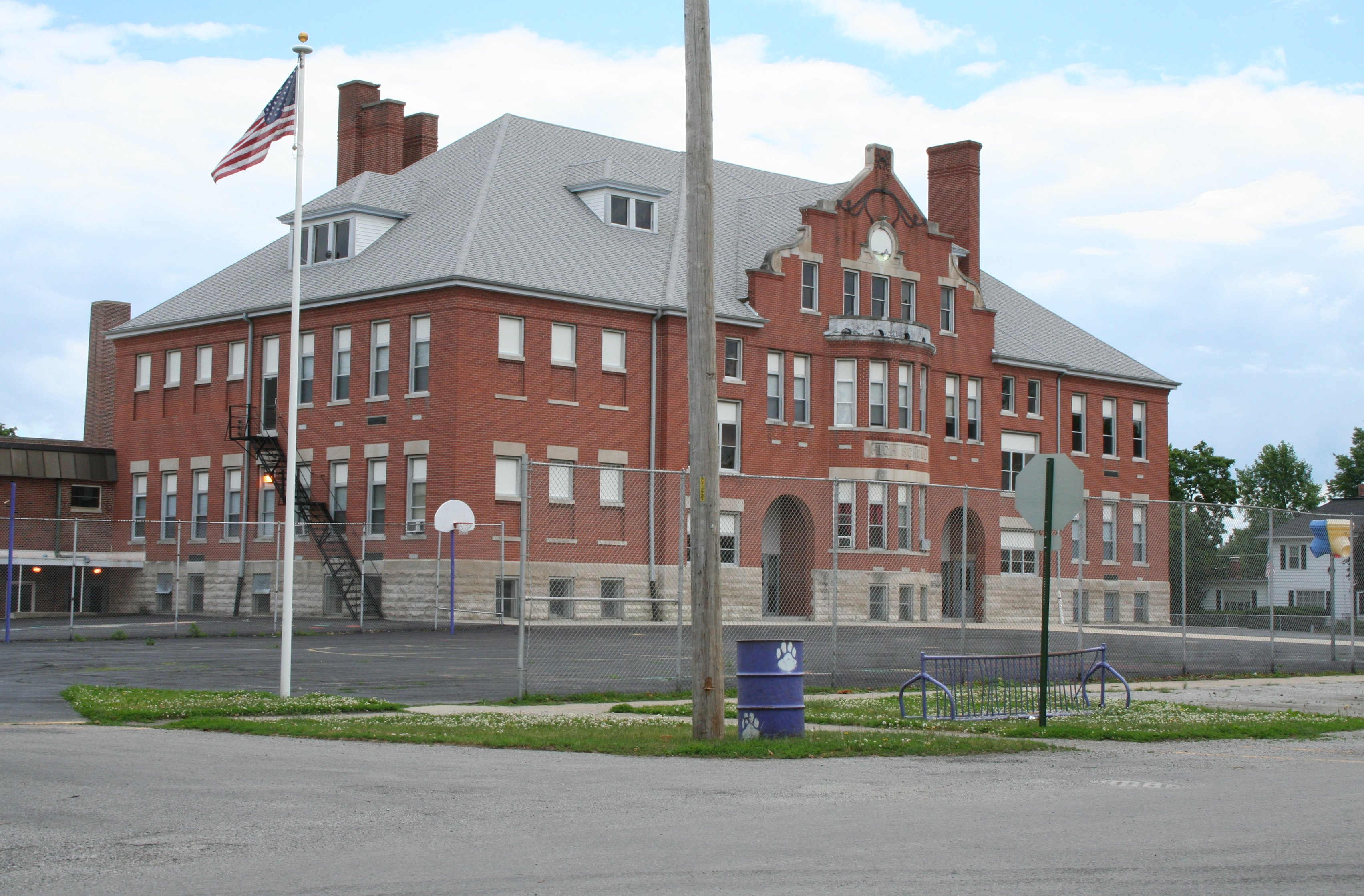 Bement_Illinois_High_School (Actually it appears to be the old High School, now Elementary and Middle School though it says "High School" on the front)[1]